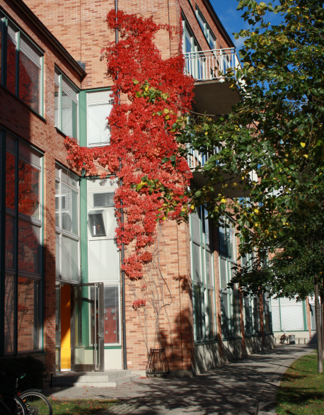 This is the main entrance to Stockholms Tekniska Gymnasium, Stockholm Sweden